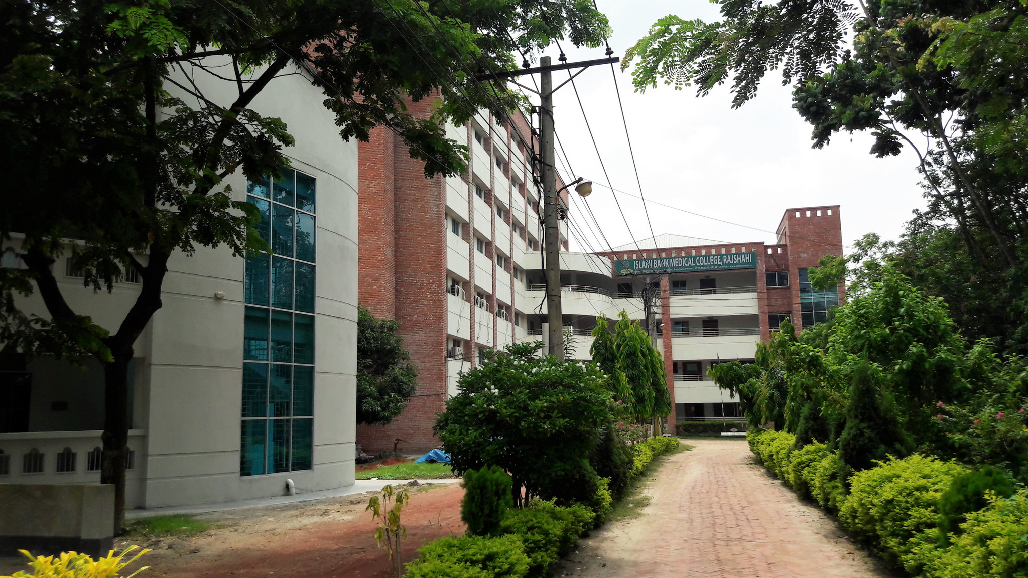 Islami Bank Medical College located in Rajshahi. In short, it is known as IBMC. In 2003, it has started its journey with 50 students.